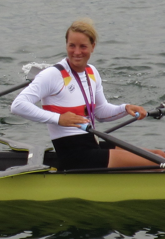 Carina Baer, Britta Oppelt, Julia Richter and Annekatrin Thiele (alphabetical order, not left to right), with their silver medals from the Women's Quad at the London 2012 Olympic Games